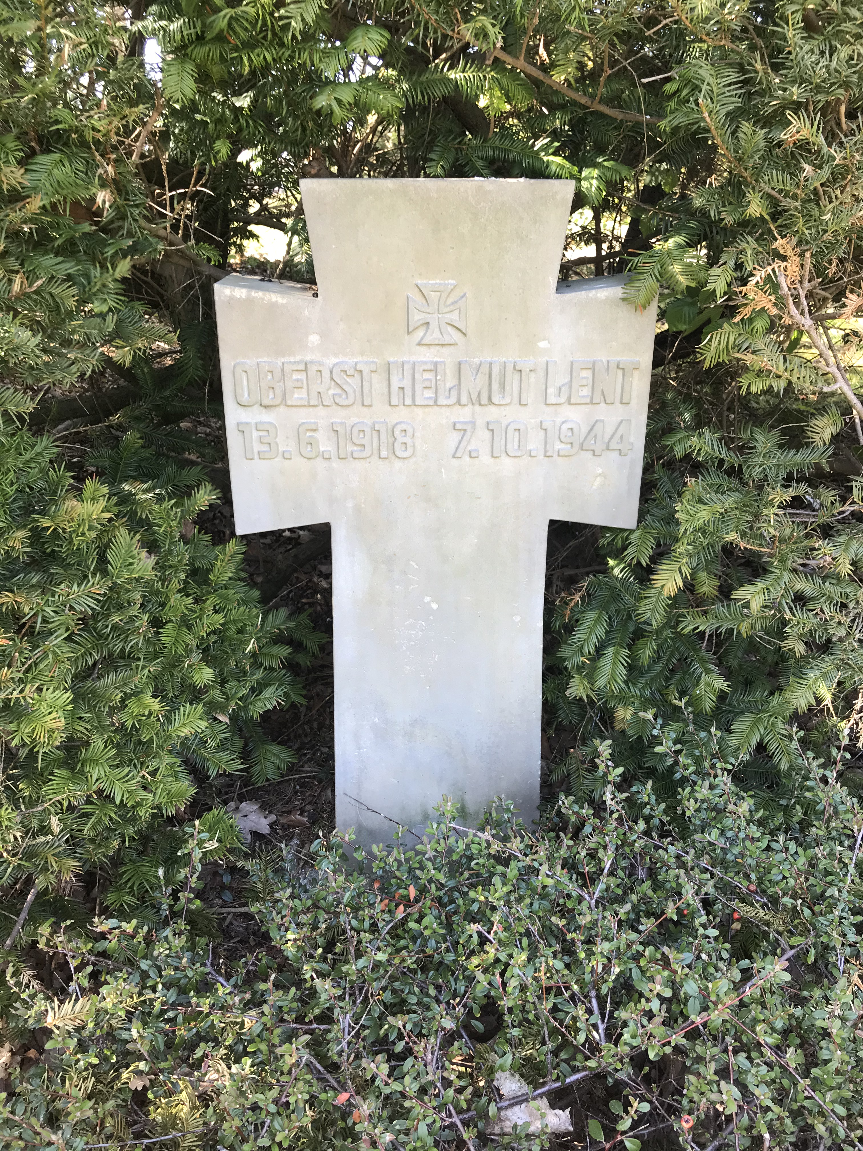 The former Garrison Cemetery (Garnisonsfriedhof) in Stade, Lower Saxony, Germany. Grave of Helmut Lent